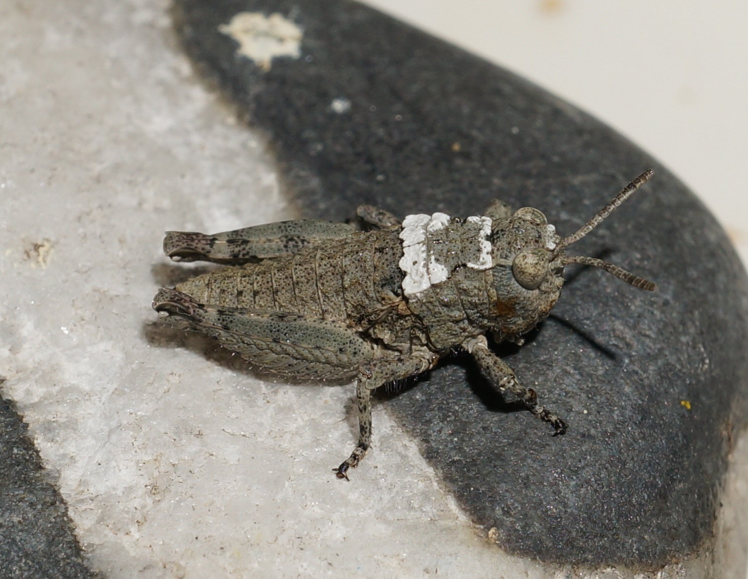 grasshopper (Sigaus minutus) from beside Lake Tekapo, New Zealand